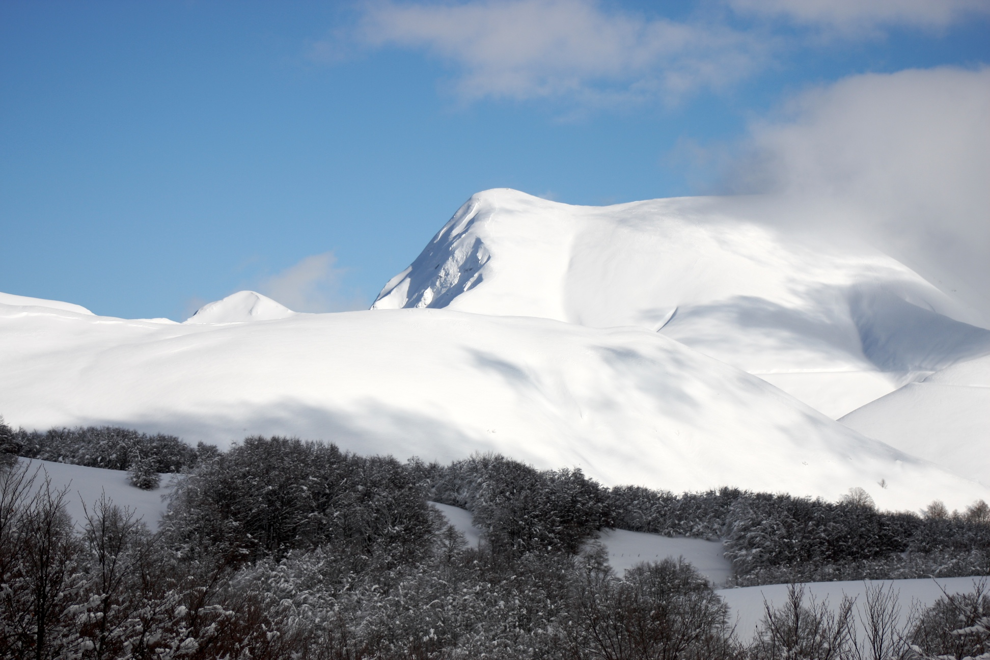 Monte Elefante (Elephant Mountain), in the Terminillo massif (Province of Rieti, Lazio, Italy)